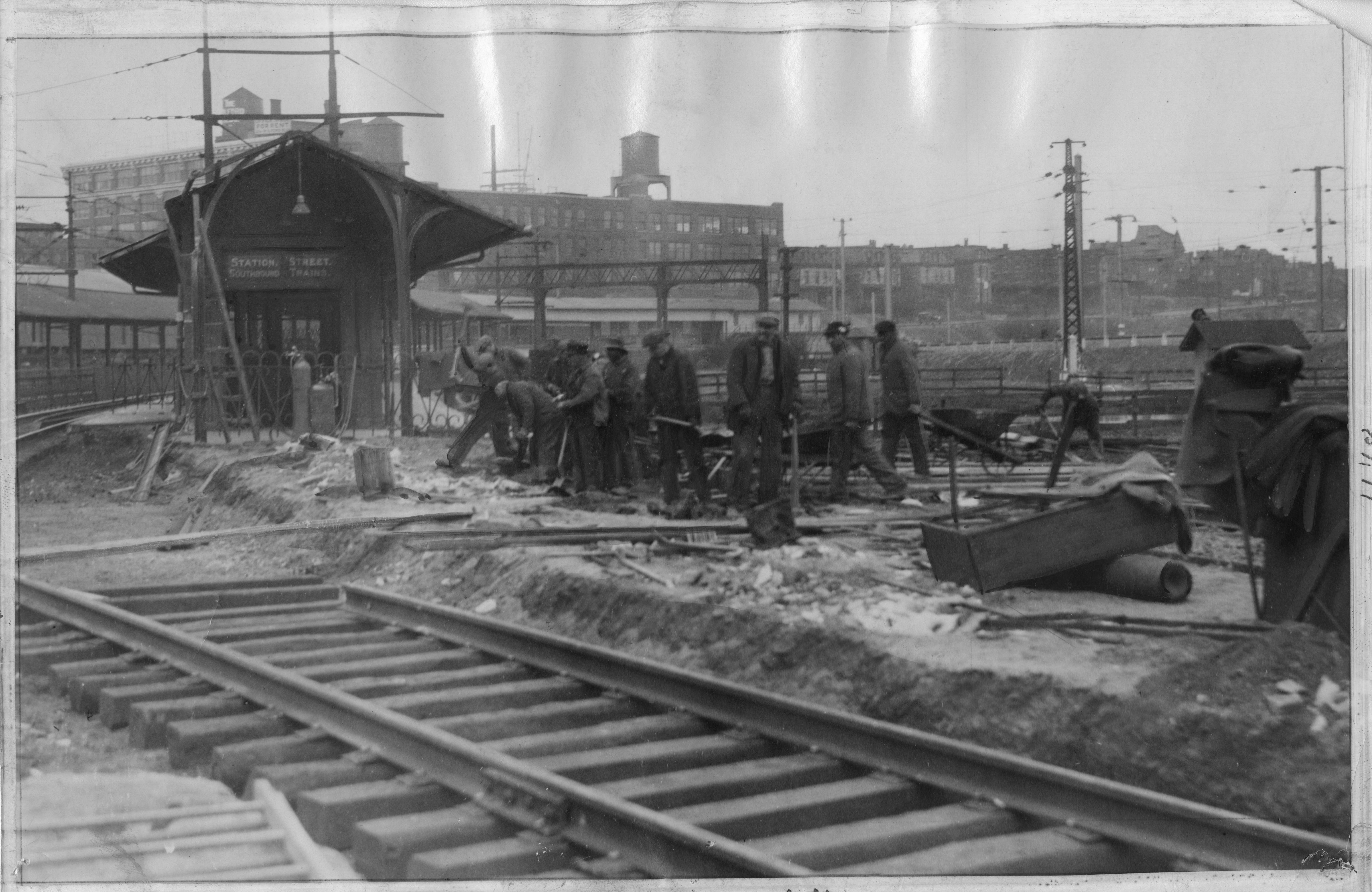 Removal of platforms at West Philadelphia station in January 1931 to prepare for the construction of 30th Street station